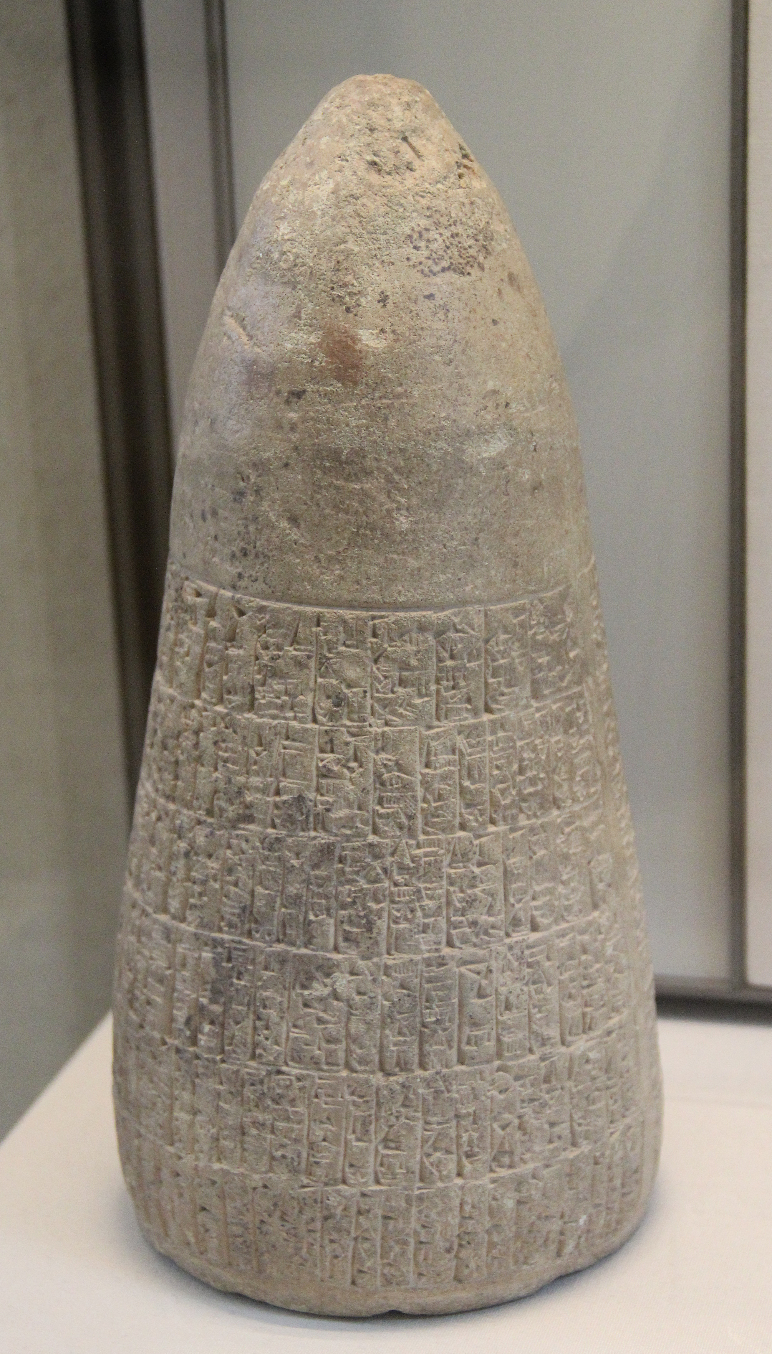 Sumerian Cuneiform Stone Cone. Cone of Enmetena, king of Lagash Ancient Near East Gallery, Louvre Museum, Paris, France. Complete indexed photo collection at .